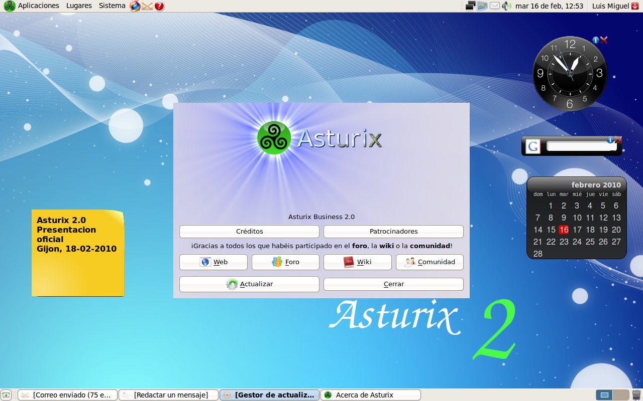 Screenshot of Asturix Business 2